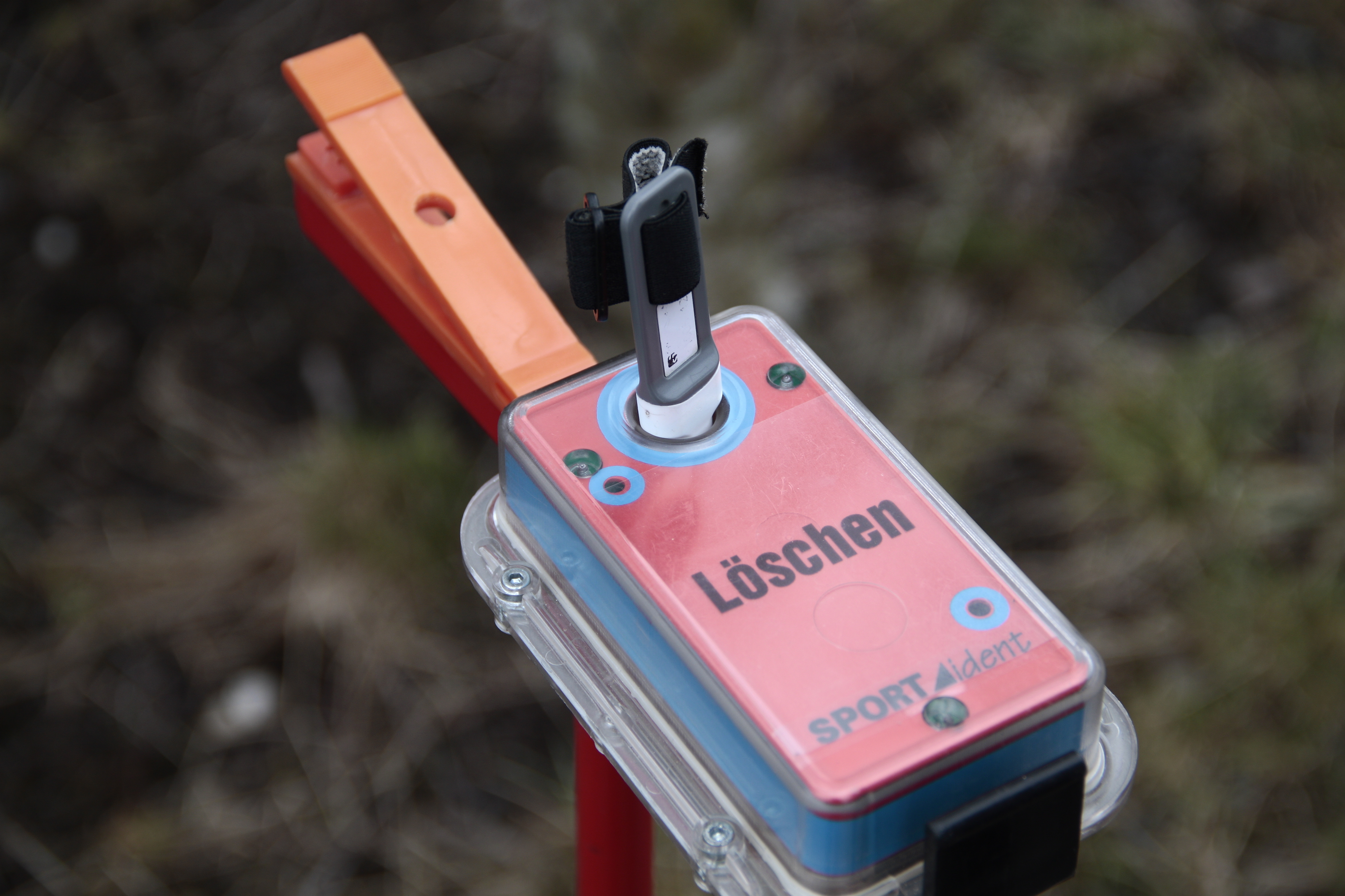 Punching equipment for orienteering: SportIdent station, stick and puncher.